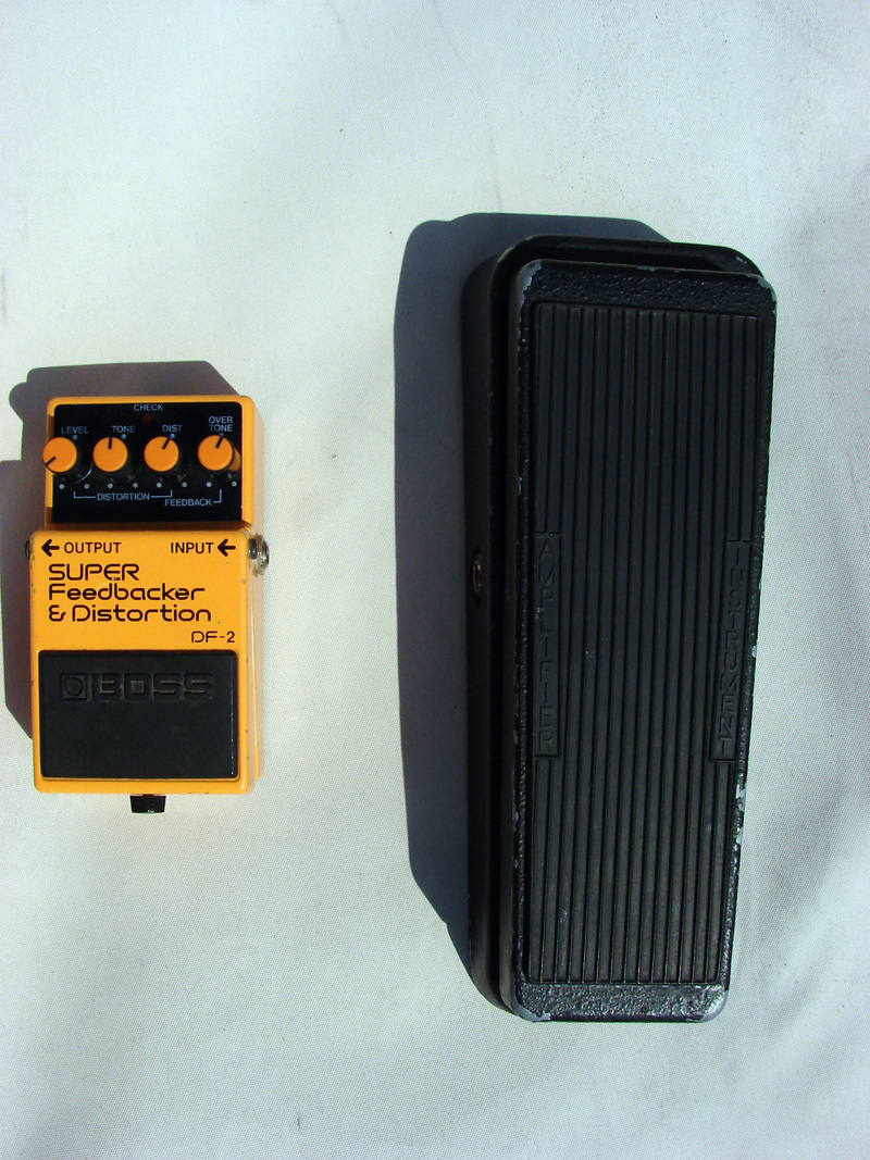 Vintage Crybaby and DF2